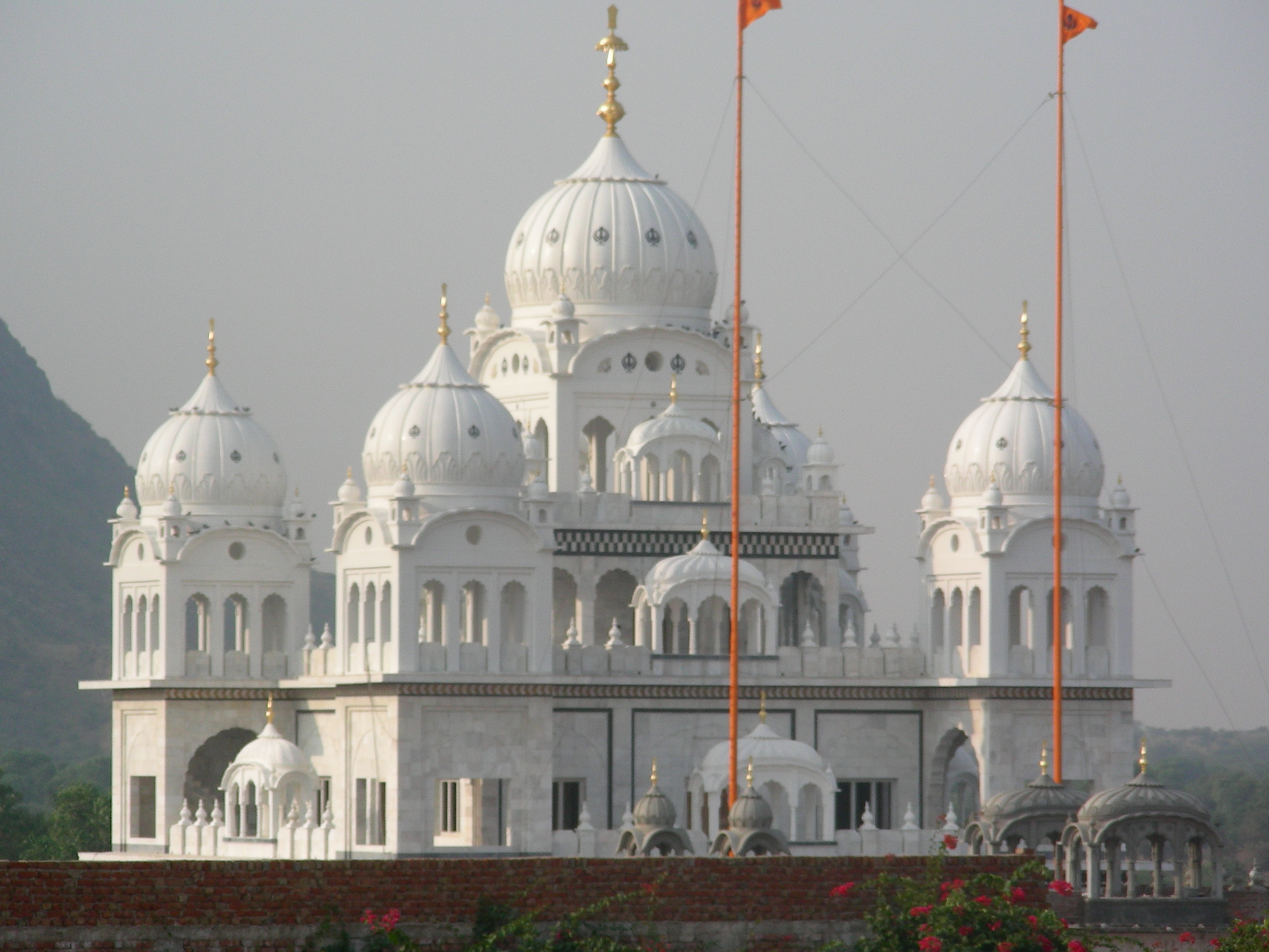 Gurudwara at Pushkar, Rajasthan.